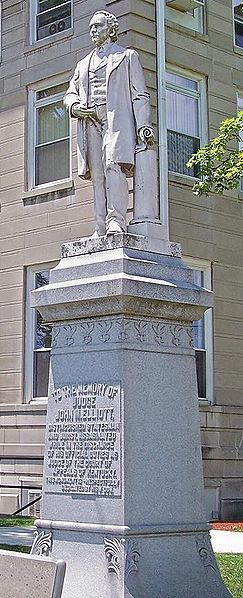 John Milton Elliott Statue at the Boyd County Courthouse at Catlettsburg, Kentucky